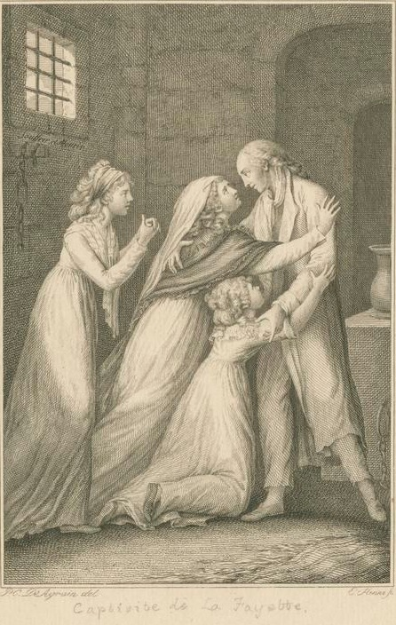 Early 19th century engraving of Lafayette reunited with his wife and daughters in his prison cell at Olmütz, 1795